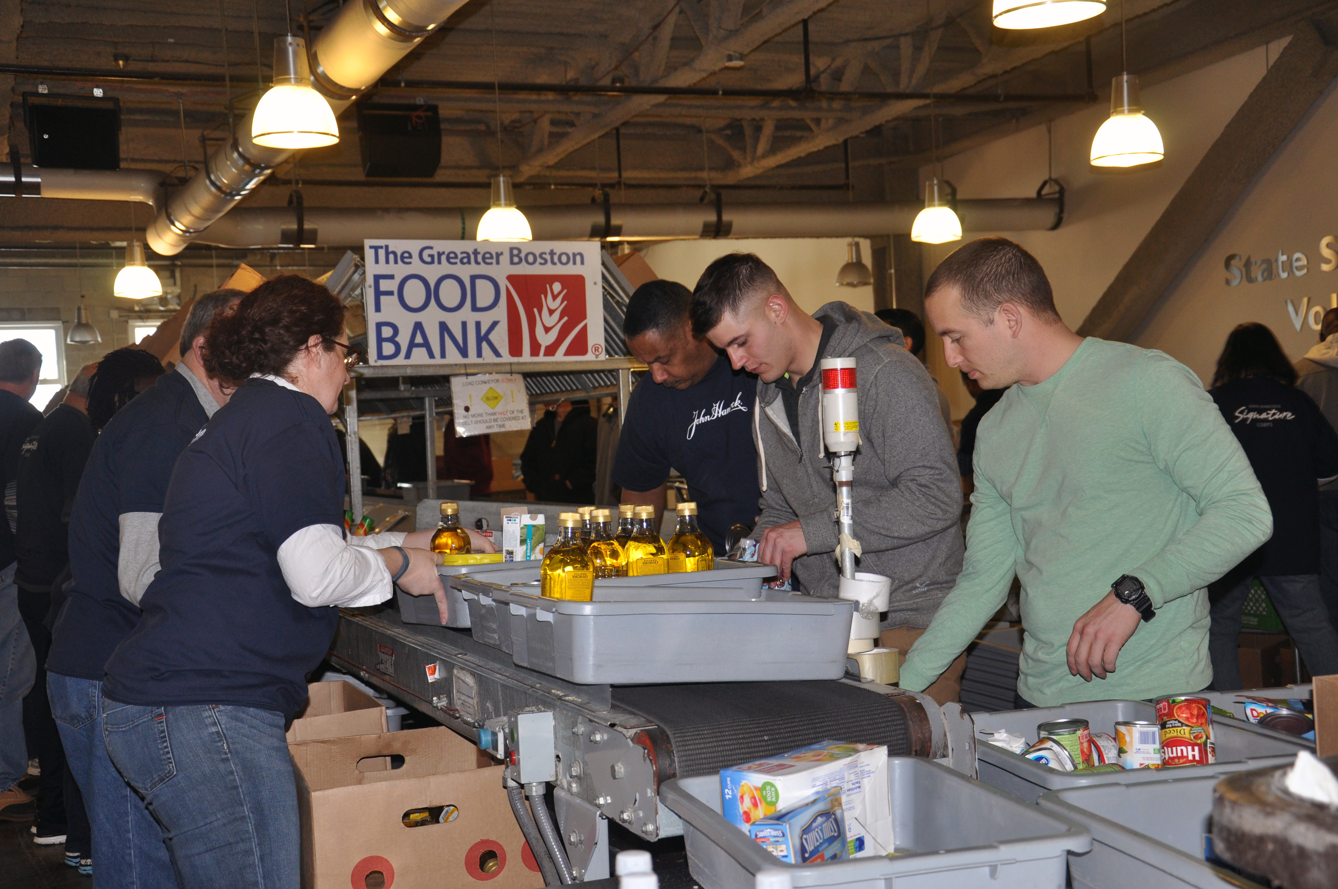 150316-N-GG458-042 BOSTON (March 16, 2015) - Sailors and Marines aboard USS Arlington (LPD 24) sort food during a community relations (COMREL) event at the Greater Boston Food Bank during a port visit to Boston. Arlington is currently in Boston for a scheduled port visit. (U.S. Navy Photo by Mass Communications Specialist 2nd Class Stevie Tate/RELEASED)